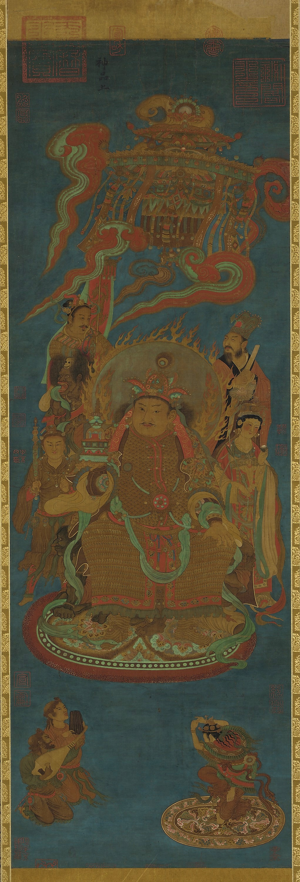 Vaisravana, Guardian King of the North Traditionally attributed to Yuchi Yiseng (mid-7th–early 8th century) Yuan or Ming dynasty, 14th century, Freer